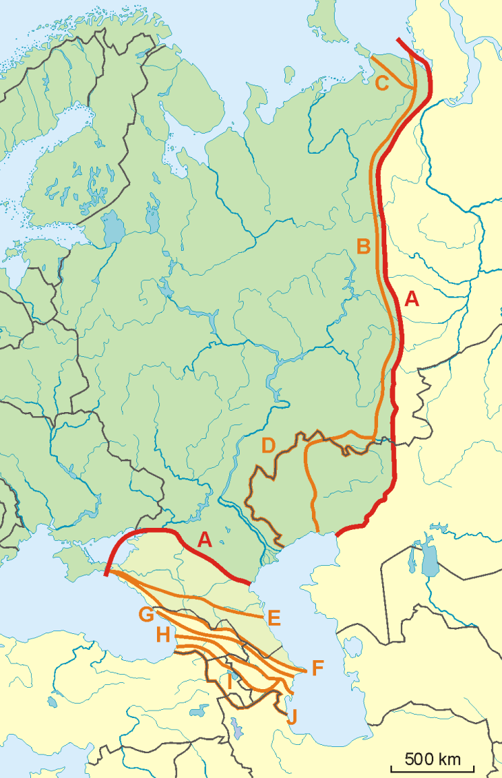 A map of possible definitions of the boundary between Europe and Asia. Note that most of these lines are not referenced to any sources proposing them. The red line marked "A" is apparently the "Strahlenberg" definition commononly taught in Soviet-era Russia. See File:Historical Europe-Asia boundaries 1700 to 1900.png for a map which is actually based on references. The modern mainstream definition used by the UN (see also this) are marked "B" (Urals and Ural River) and "F" (Caucasus watershed). Lines C, D, E, G, H, I and J are currently without reference. Red line - "Strahlenberg" border, allegedly also used by the International Geographical Union [1] A: Ural Mountains-Emba River and Kuma Manych Depression (at Rivers Kuma, Manych and lower Don) Orange lines - other variants of border: B: Ural Mountains-Ural River (modern mainstream definition) C: Yugorsky Strait Cape–Pay Khoy Mountains–Ural Mountains-Ural River D: Ural Mountains-Kazakhstan Border E: northern foothills of Caucasus F: Lines on the Great Caucasus watershed (modern mainstream definition) G: southern foothills of Caucasus H: Meso-Caucasus at Rivers Rioni and Kura I: Lines on the Lesser Caucasus and Rivers Araks and Kura J: former Soviet Union border